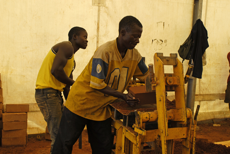 Lovale people in Lwena/Moxico, Angola.